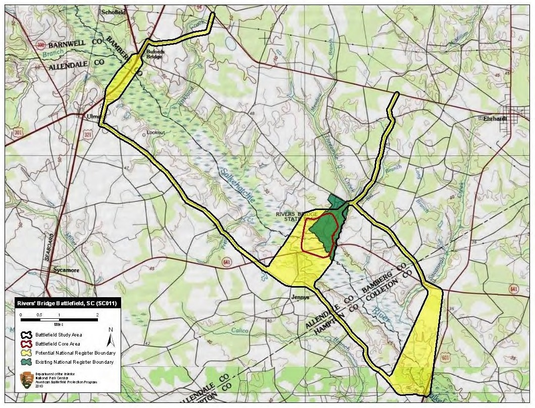 Map of battlefield core and study areas. The ABPP expanded the 1993 Study Area to include the location of Federal maneuvers against Rivers’ Bridge, Buford's Bridge, and Broxton's Bridge. These maneuvers, coupled with the flanking of the Confederate position at Rivers' Bridge, made the defense of the Salkehatchie River untenable. The ABPP reduced the Core Area to only those areas that came under Confederate fire, and locations where Federal forces engaged in diversionary and flank attacks.